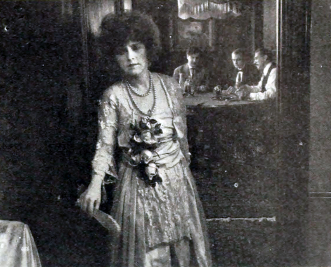 Illustration of an article in The Moving Picture World for the film A Gutter Magdalene (1916).